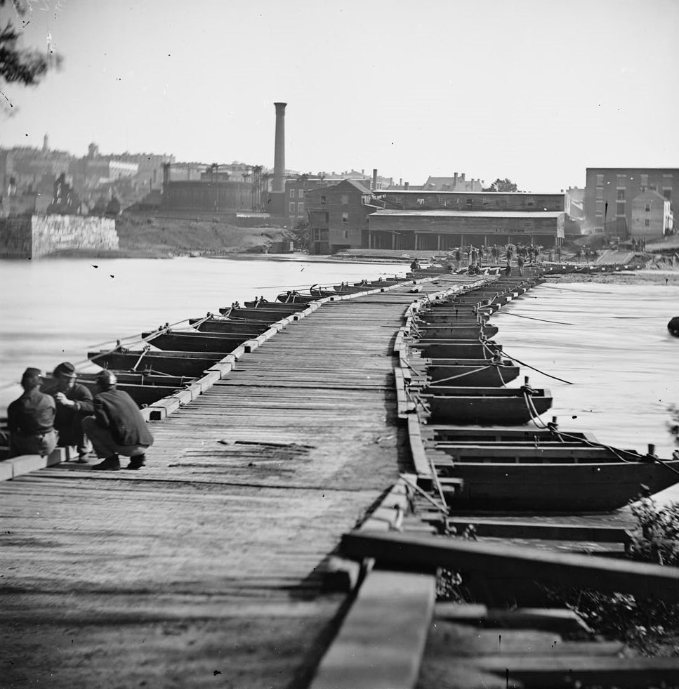 Petersburg, Virginia. Pontoon bridge